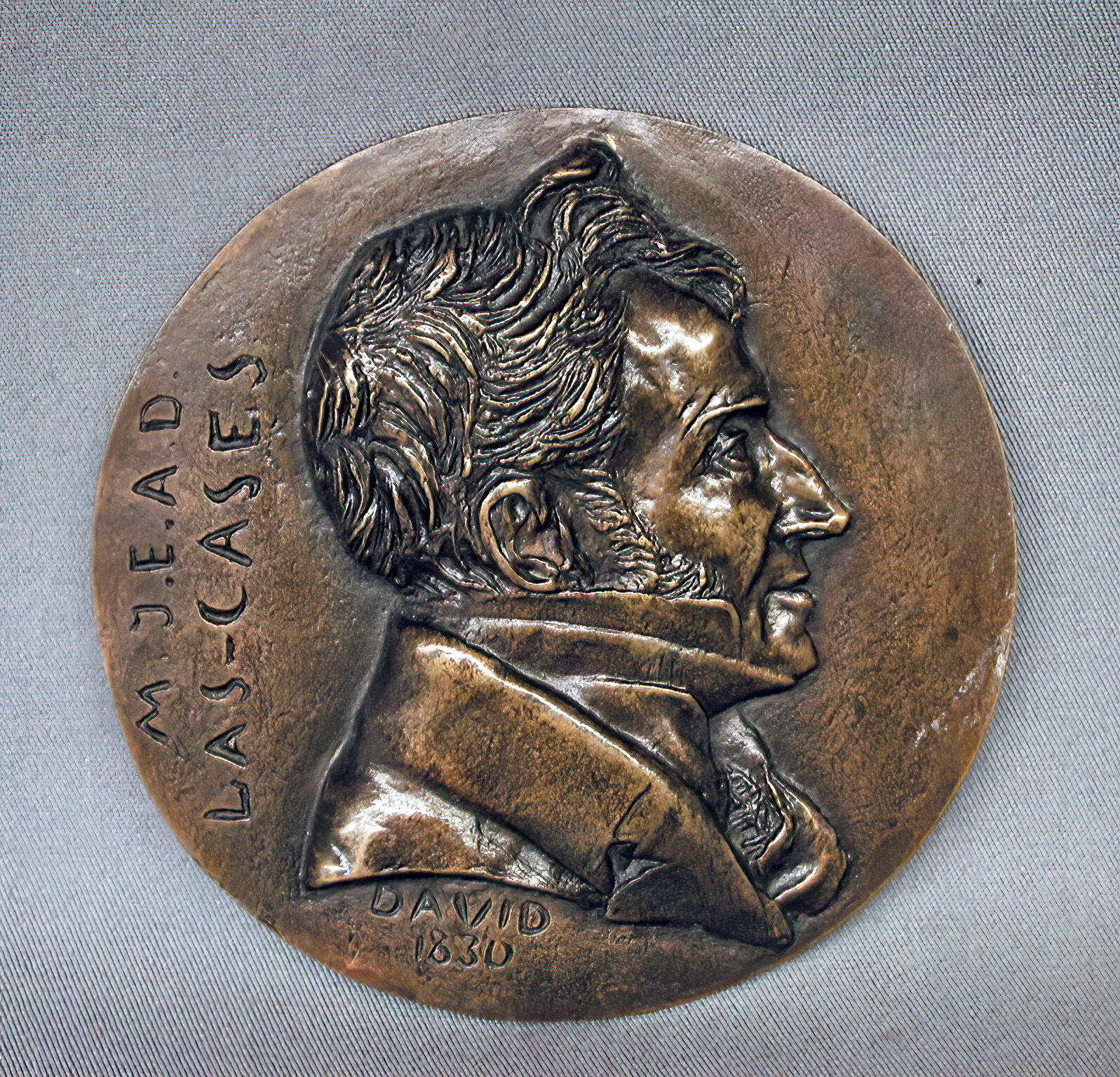 French; Medallion; Medals and Plaquettes